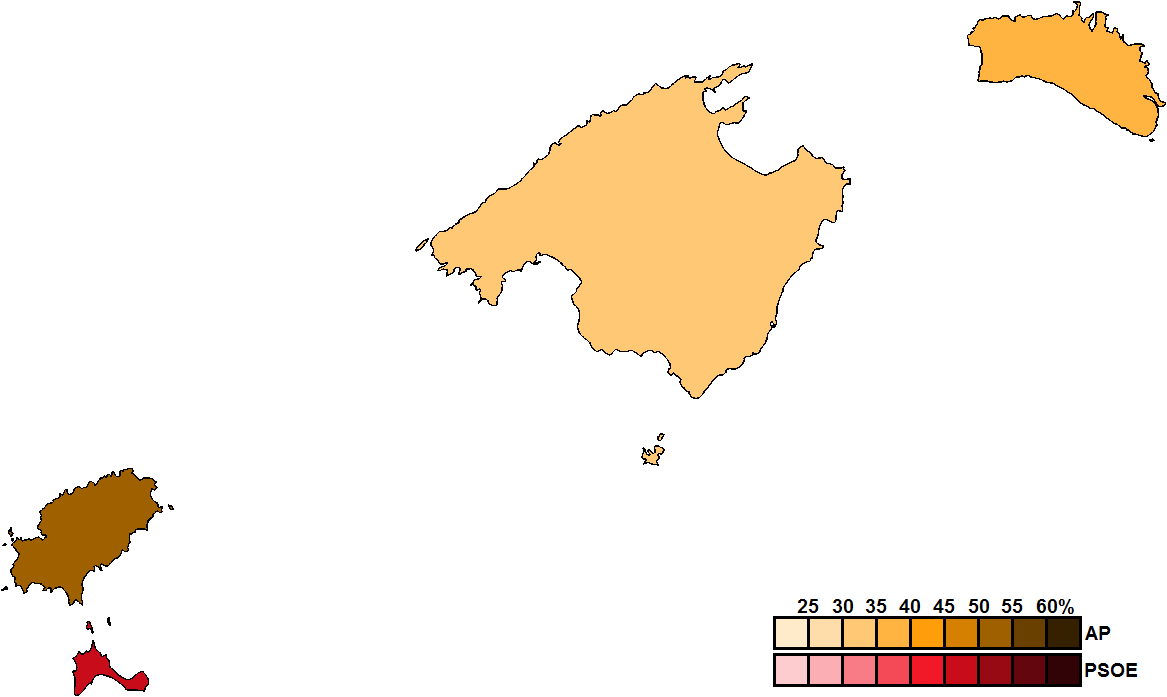 District results for the 1987 Balearic regional election.